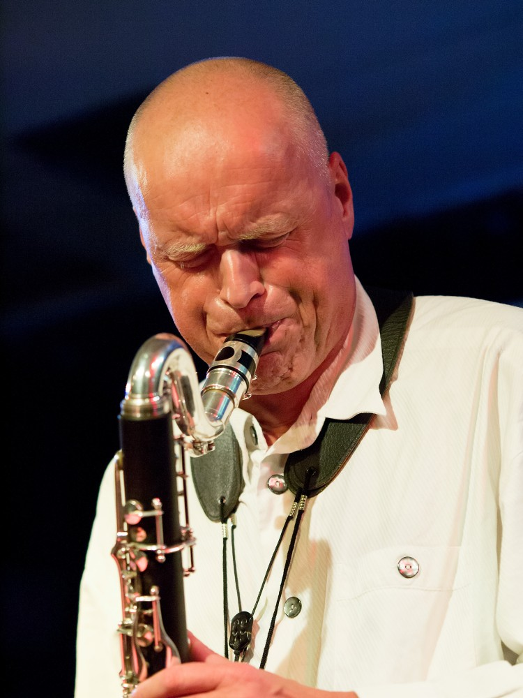 Gebhard Ullmann, Jazz clarinetist; Picture taken in Jazz Club Unterfahrt, Munich/Bavaria